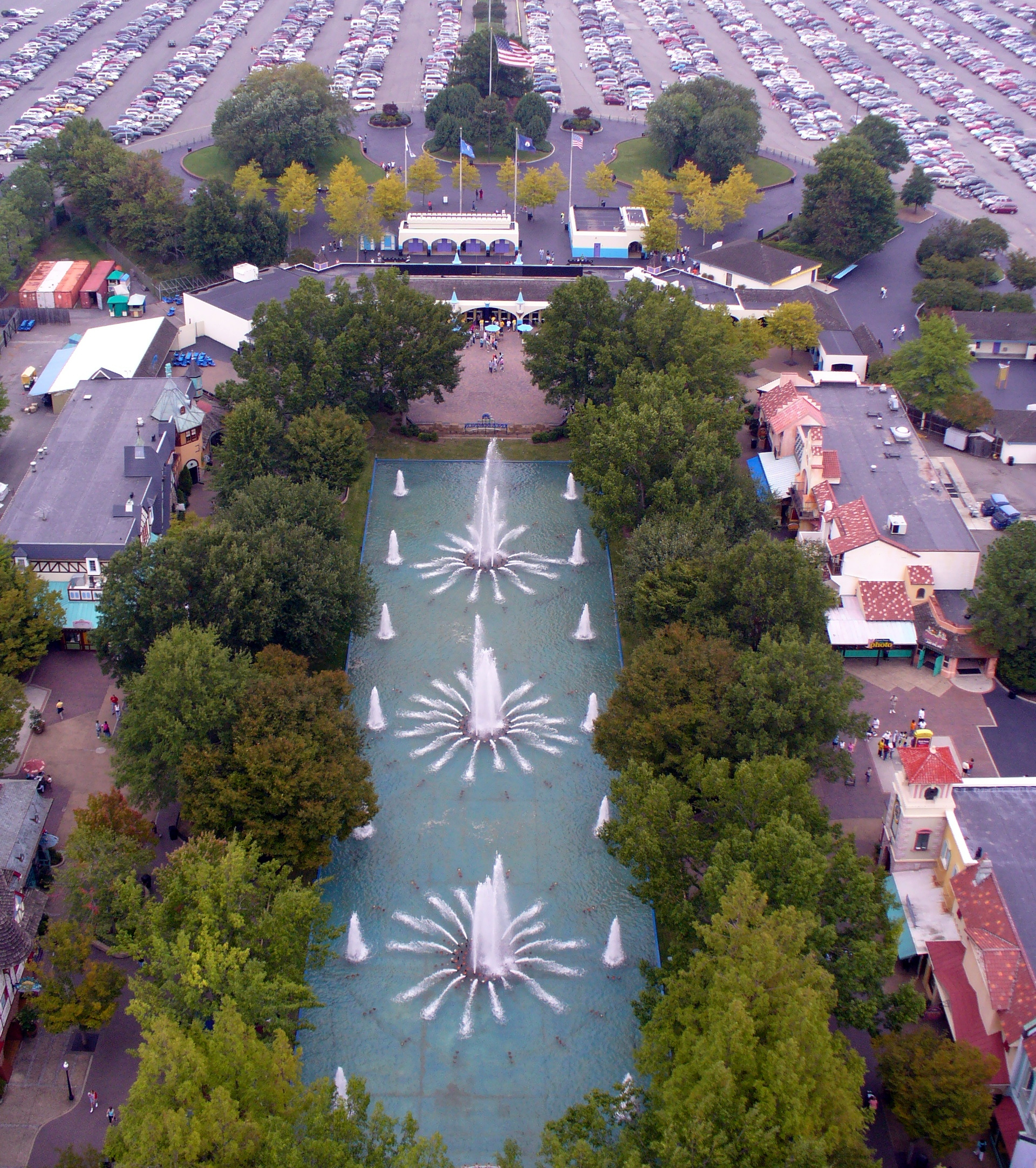 The entrance of Paramount's Kings Dominion as seen from the observation deck on the 3:1 scale model of the Eiffel Tower inside the park. Hanover County, Virginia.